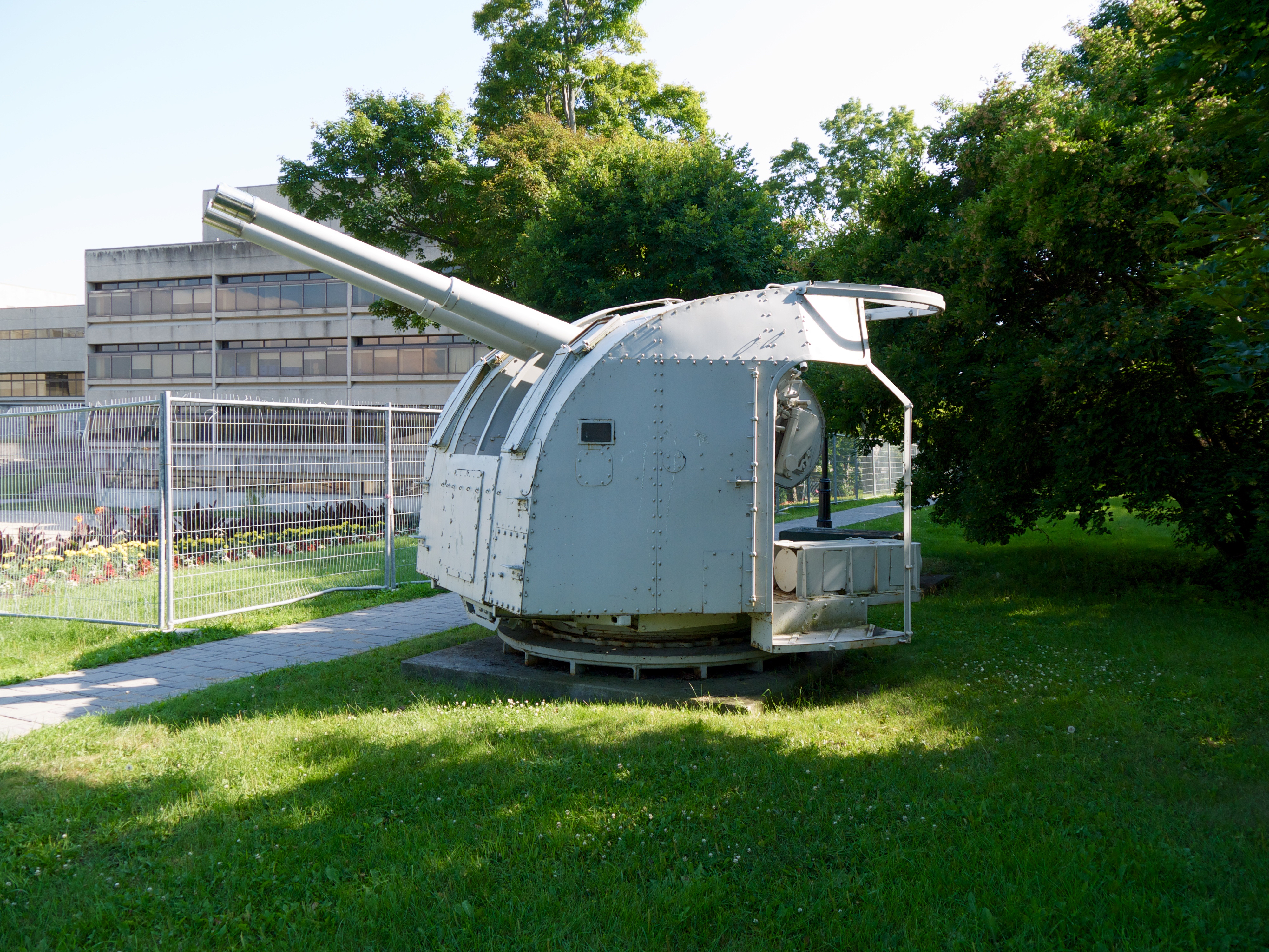 Twin QF 4 inch Mk XVI naval guns in Mk. XIX HA mounting, from Canadian destroyer HMCS Huron. Displayed on the grounds of the Royal Military College in Kingston, Ontario.